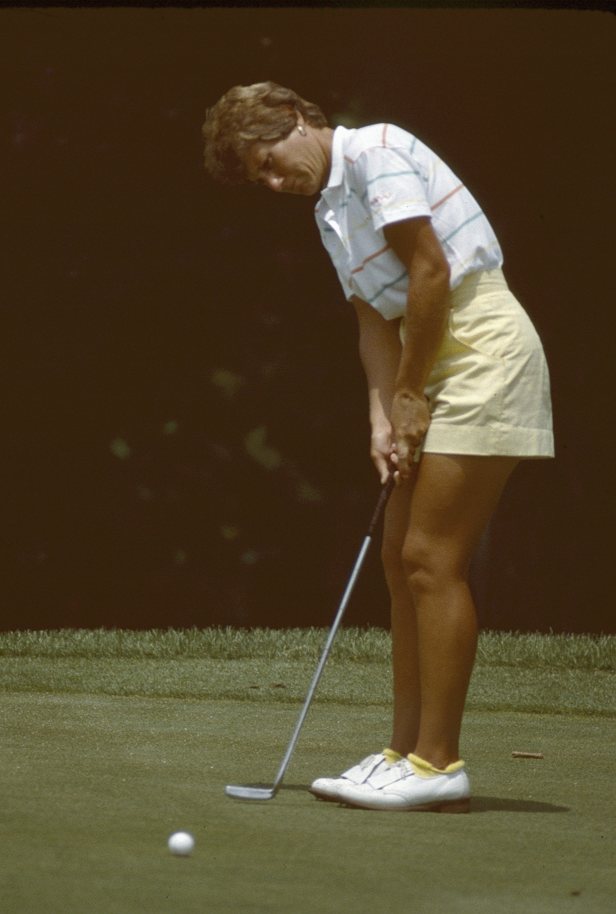 Patty Sheehan Photo By Ted Van Pelt